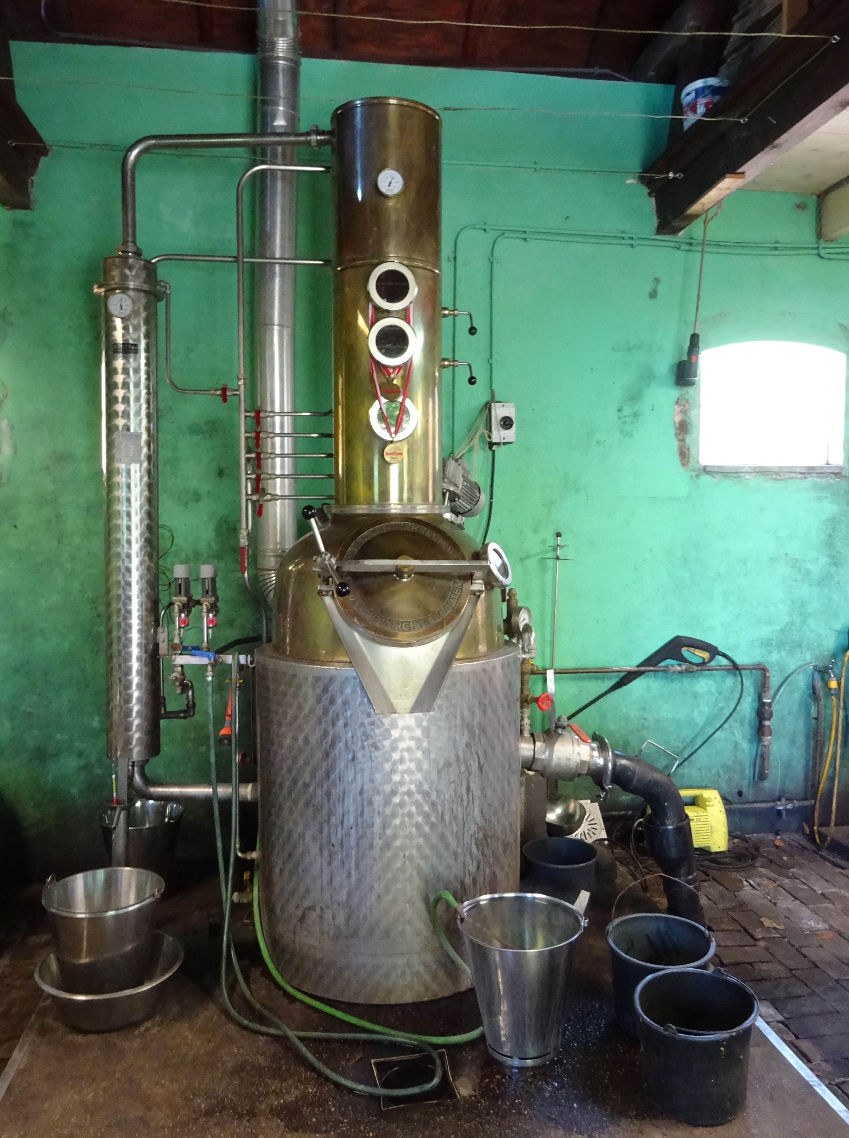 Alambic for eaux de vie in Varik, the Netherlands